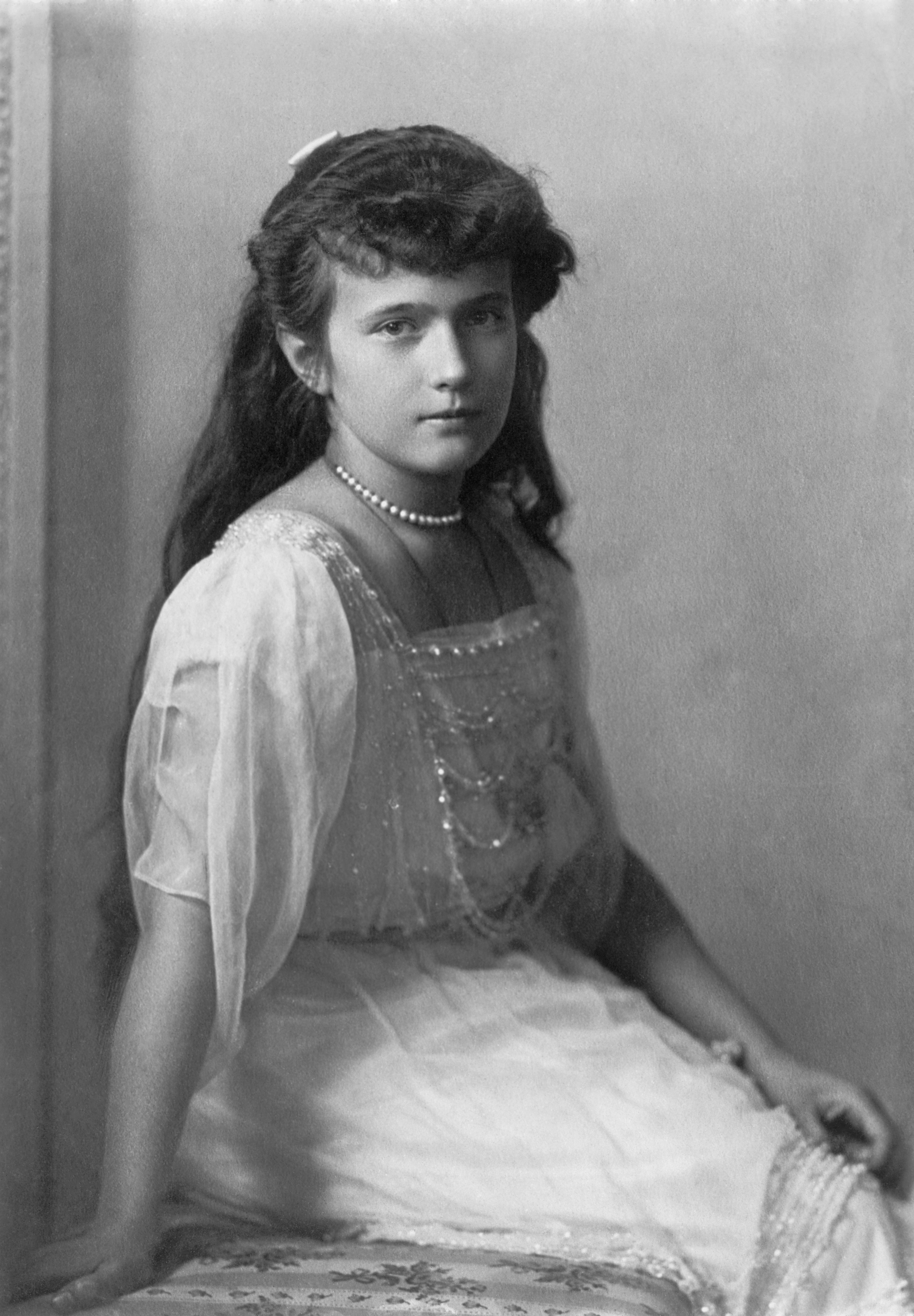 Grand Duchess Anastasia Nikolaevna of Russia; restoration completed by Crisco 1492 (uploader)